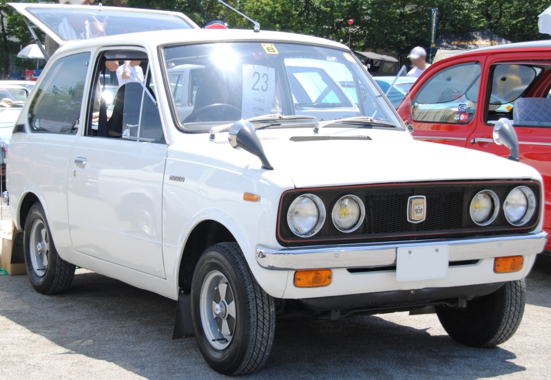 Mitsubishi Minica 70.